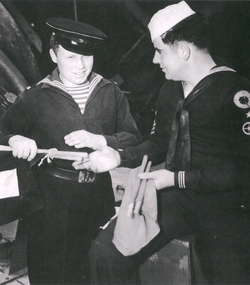 A Soviet Navy signalman (left) receives training from a United States Navy signalman (right) at Cold Bay, Territory of Alaska, during the secret Project Hula training-and-transfer program.